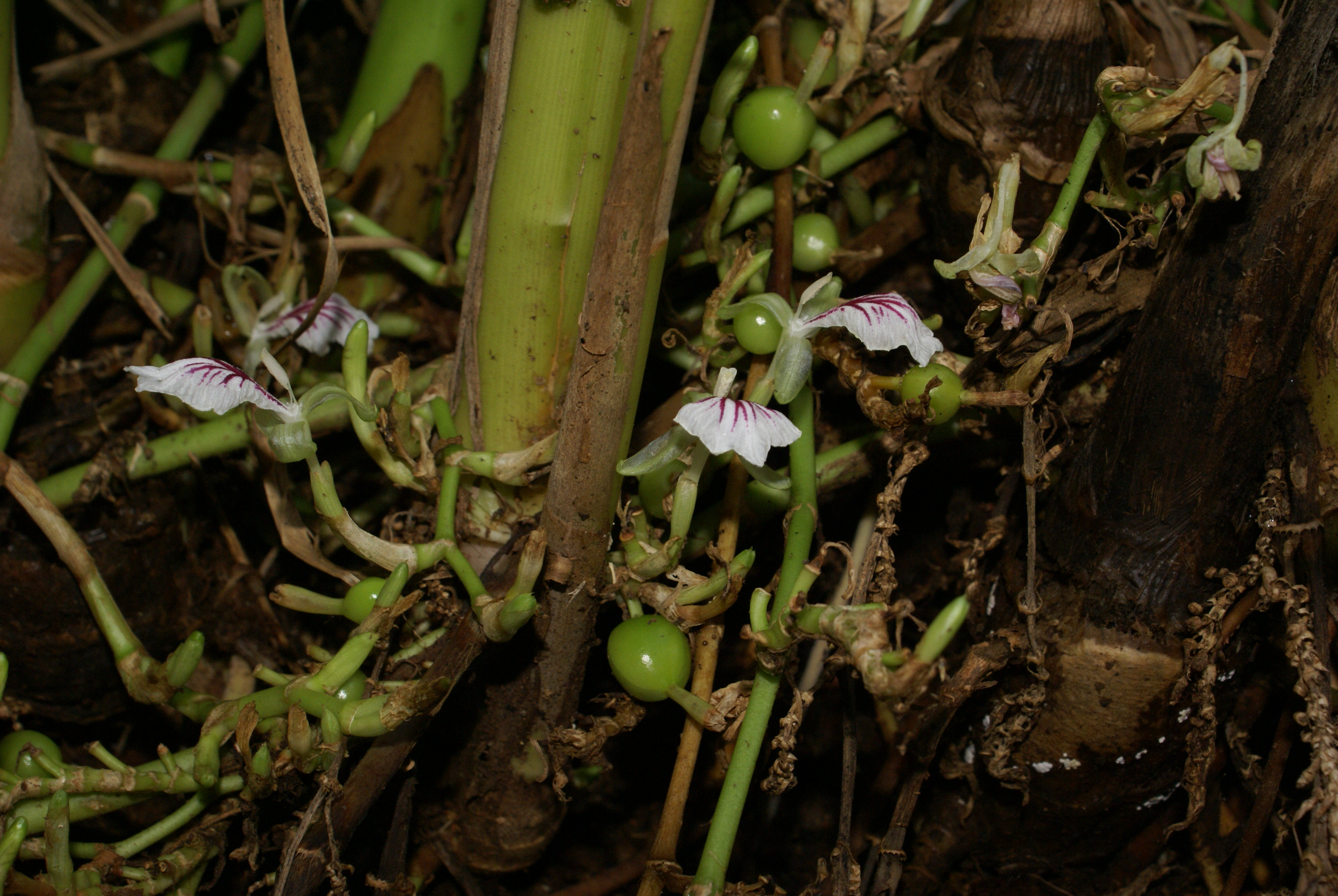 Elettaria cardamomum flowers